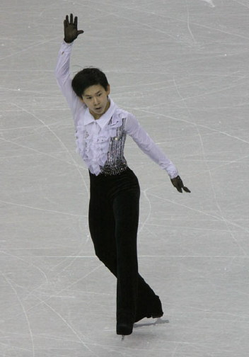 Denis TEN at 2009 Four Continents Championships.